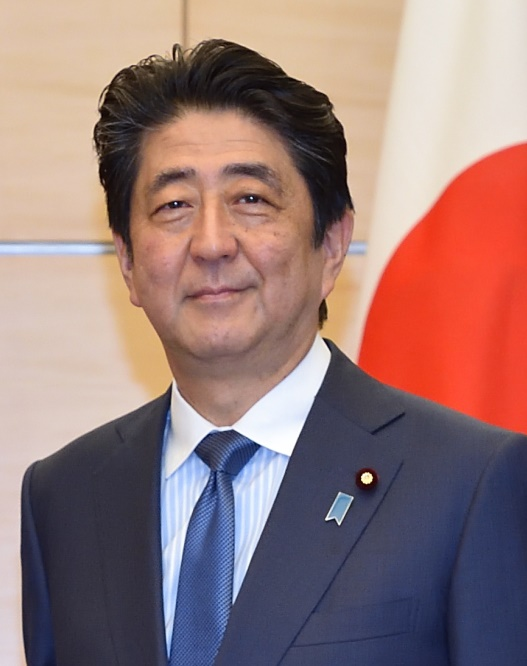 U.S. Secretary of State Rex Tillerson shakes hands with Japanese Prime Minister Shinzo Abe before their bilateral meeting in Tokyo, Japan, on March 16, 2017. [U.S. Embassy Tokyo photo/Public Domain]